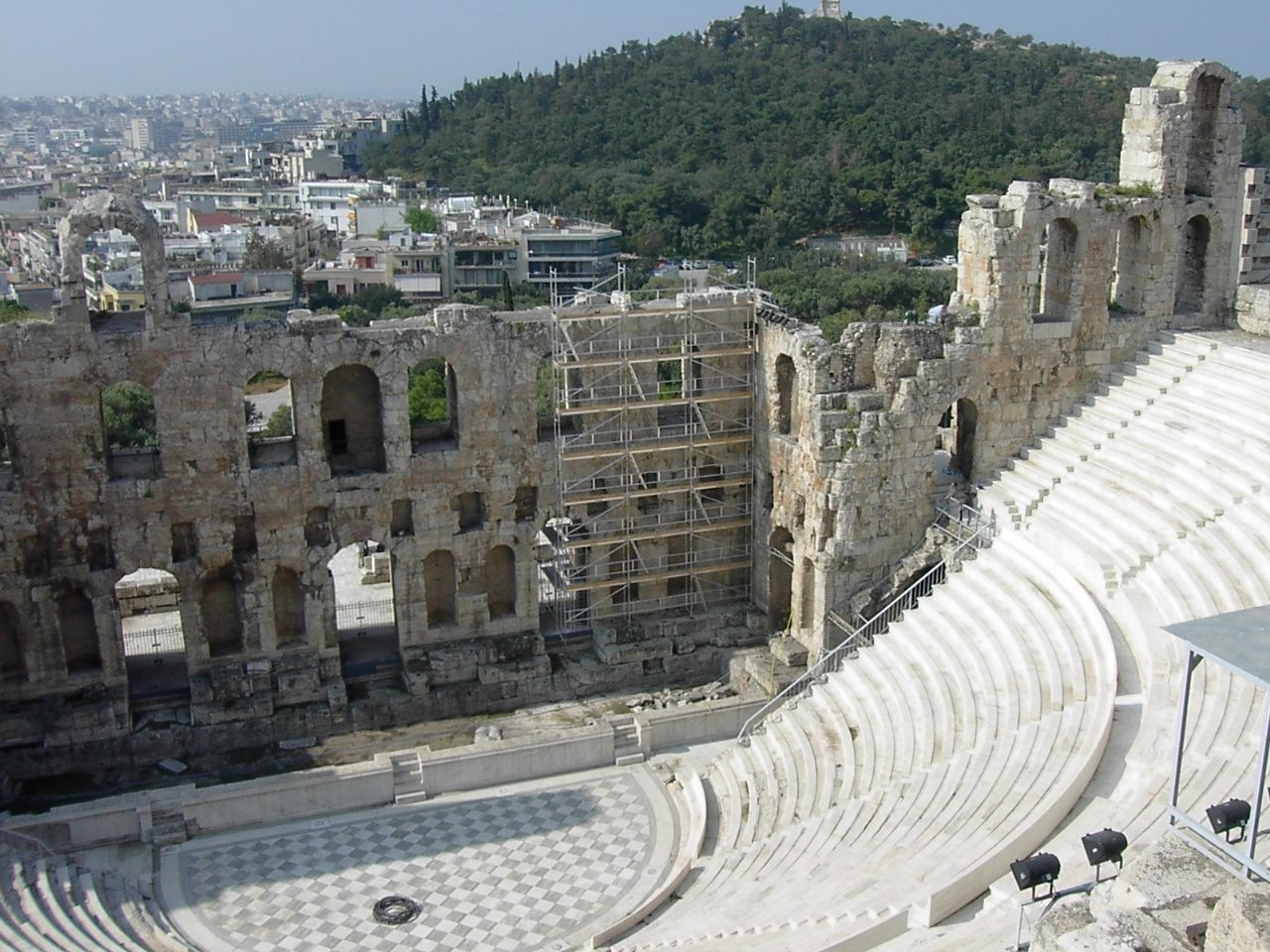 The Theatre of Herodes Atticus, Athens